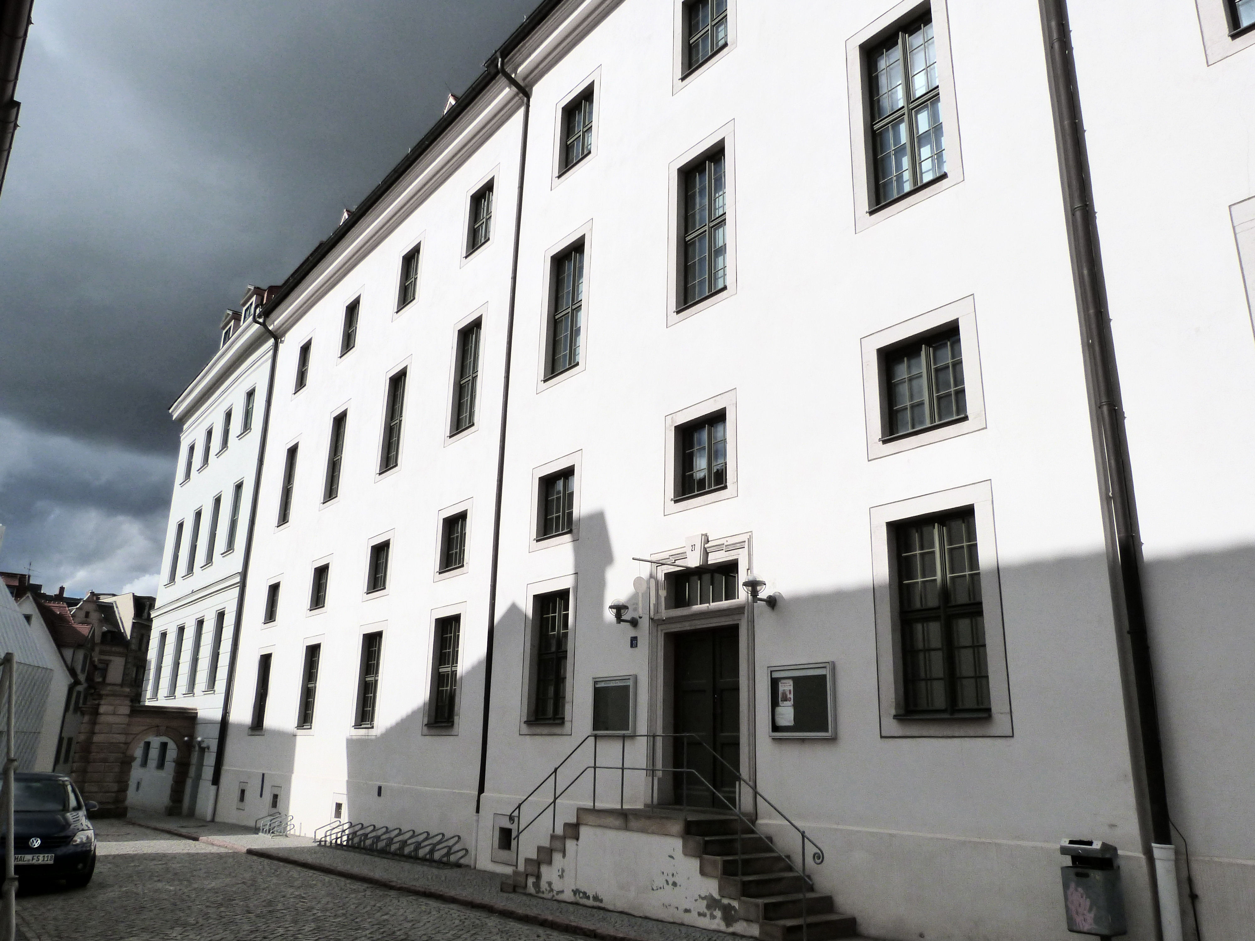 House 27, former refectory, Francke foundations in Halle (Saale), today canteen of the University